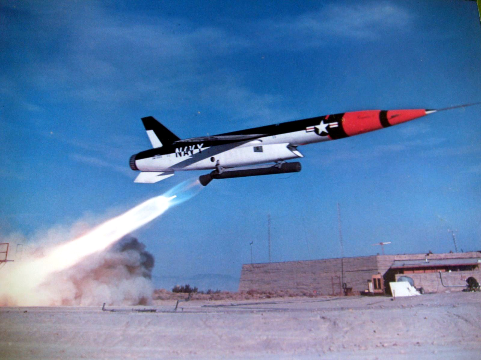 Launch of U.S. Navy Vought SSM-N-9 Regulus II cruise missile.